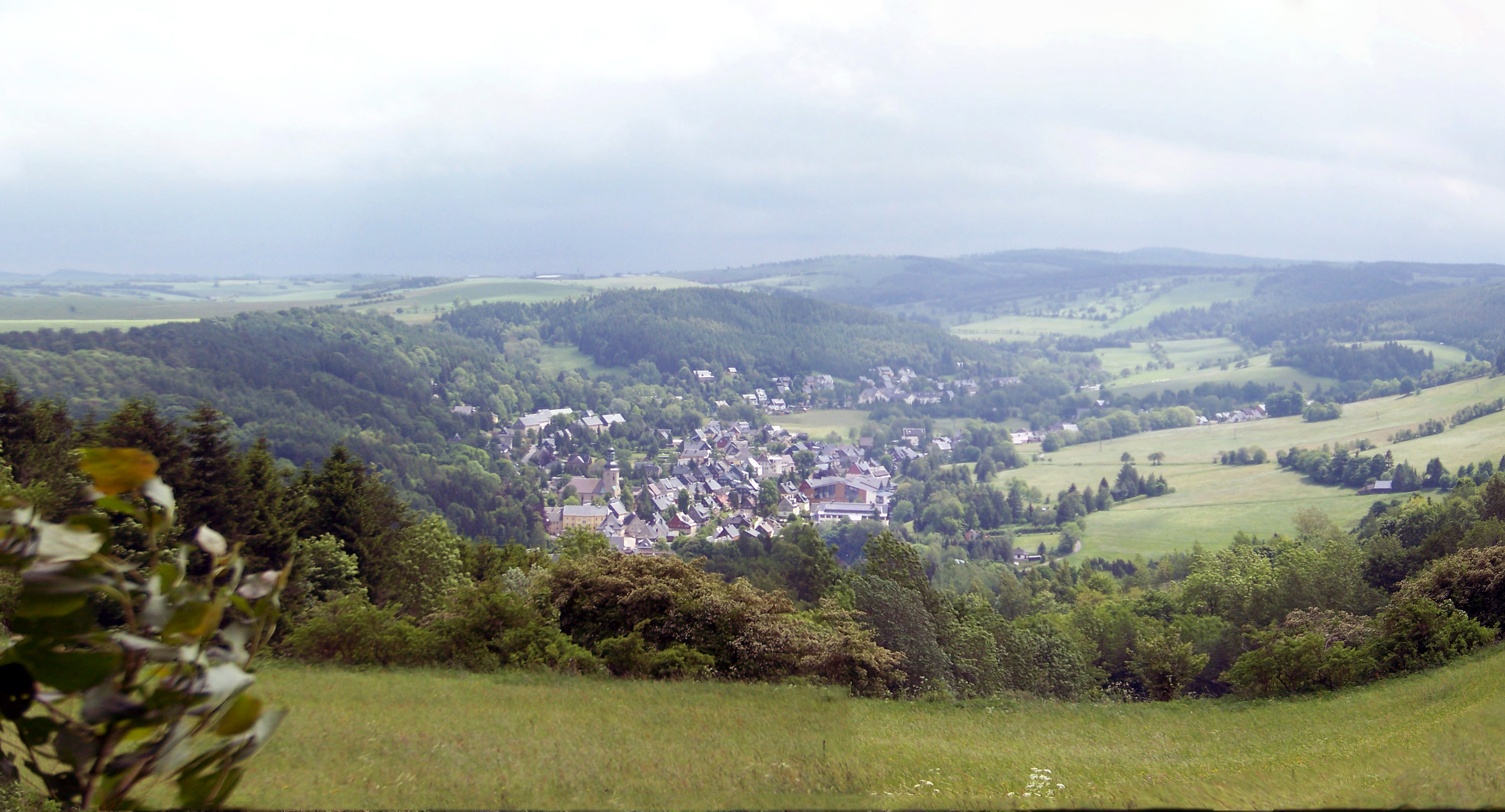 View across the Müglitztal valley facing Geising village, seen from the Geisingberg mountain